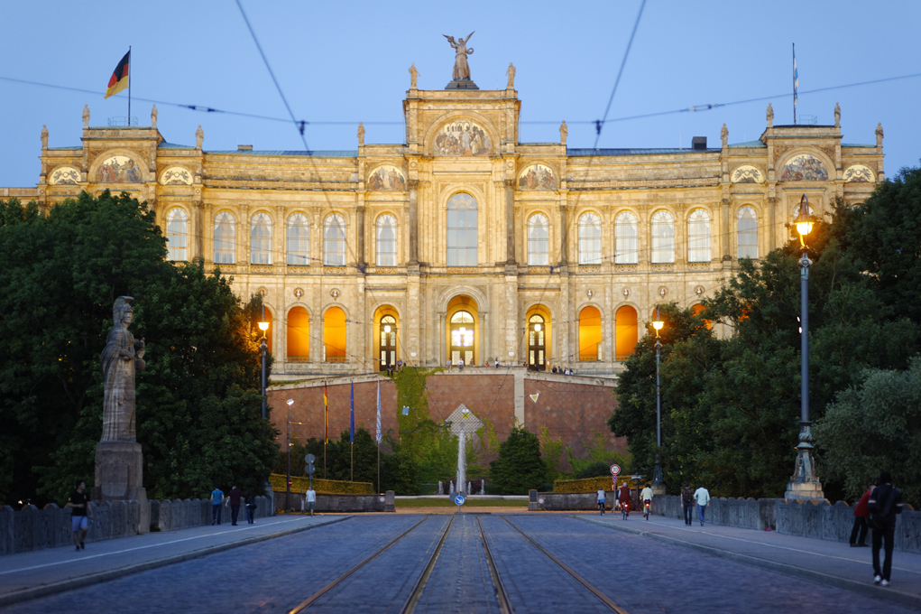 The Maximilianeum Building at sunset during the summer of 2012